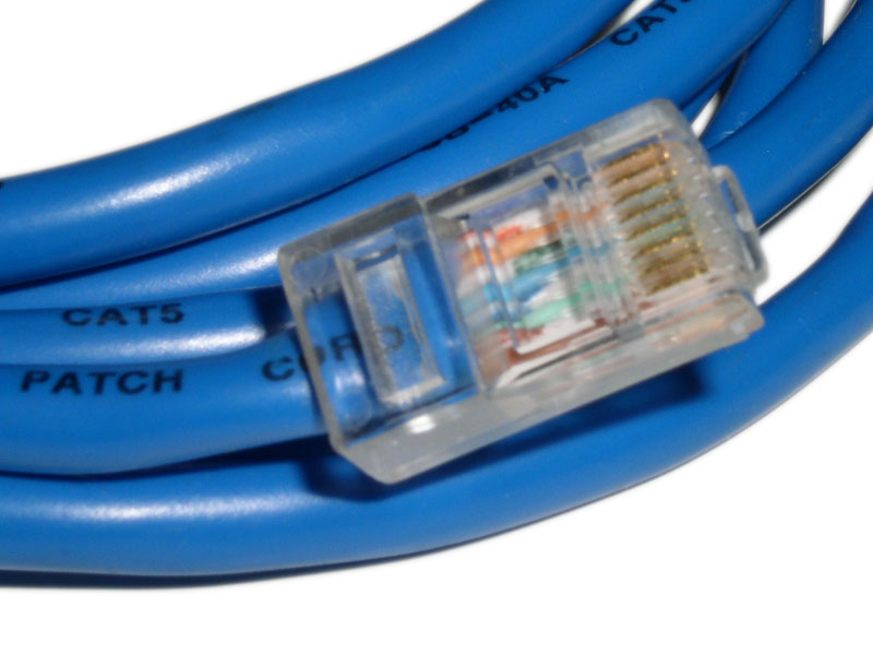 Blue stranded category 5 cable with 8P8C modular connector, wired 568B-568B.